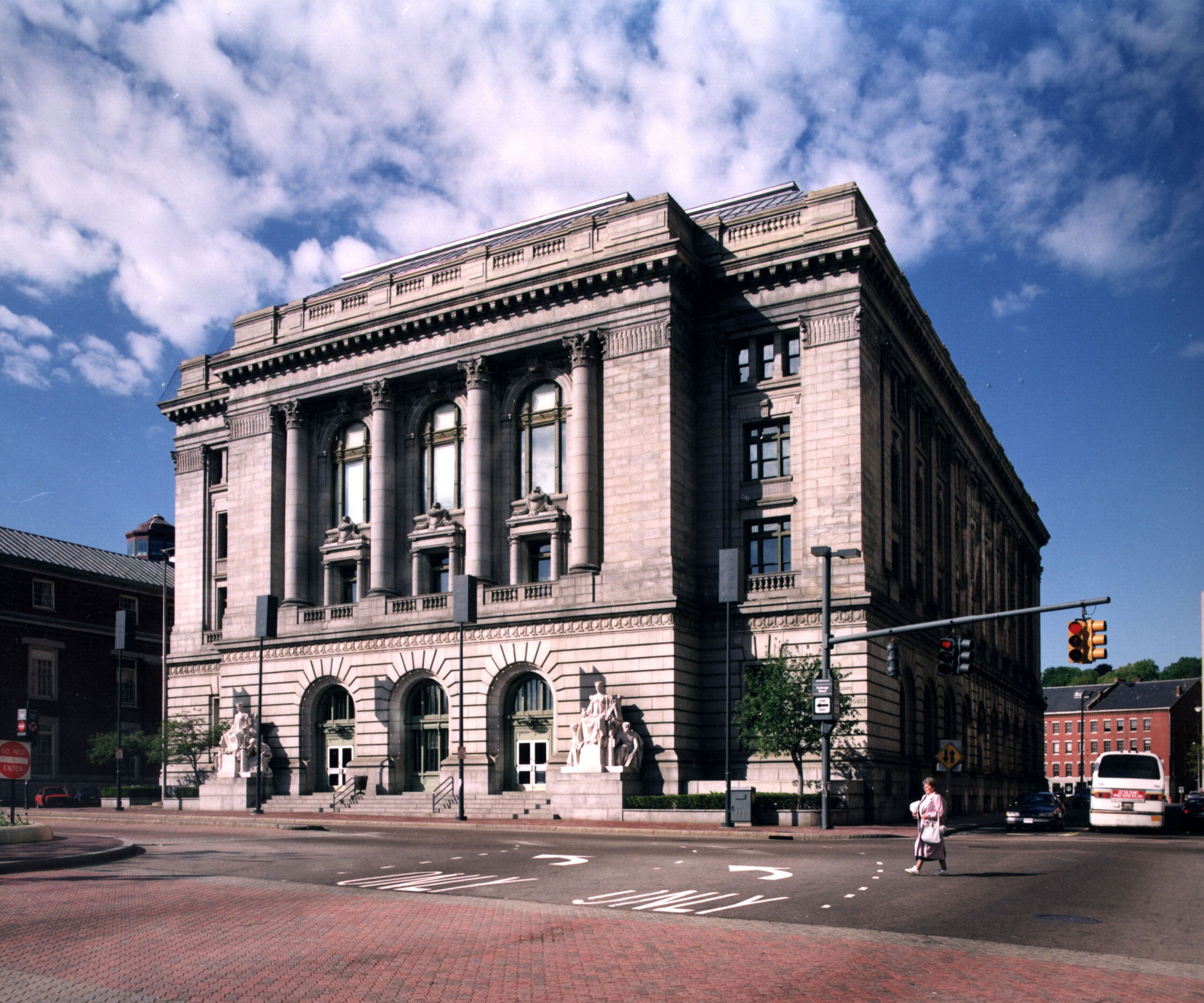 Federal Building and U.S. Courthouse, Providence, RI, September 2003